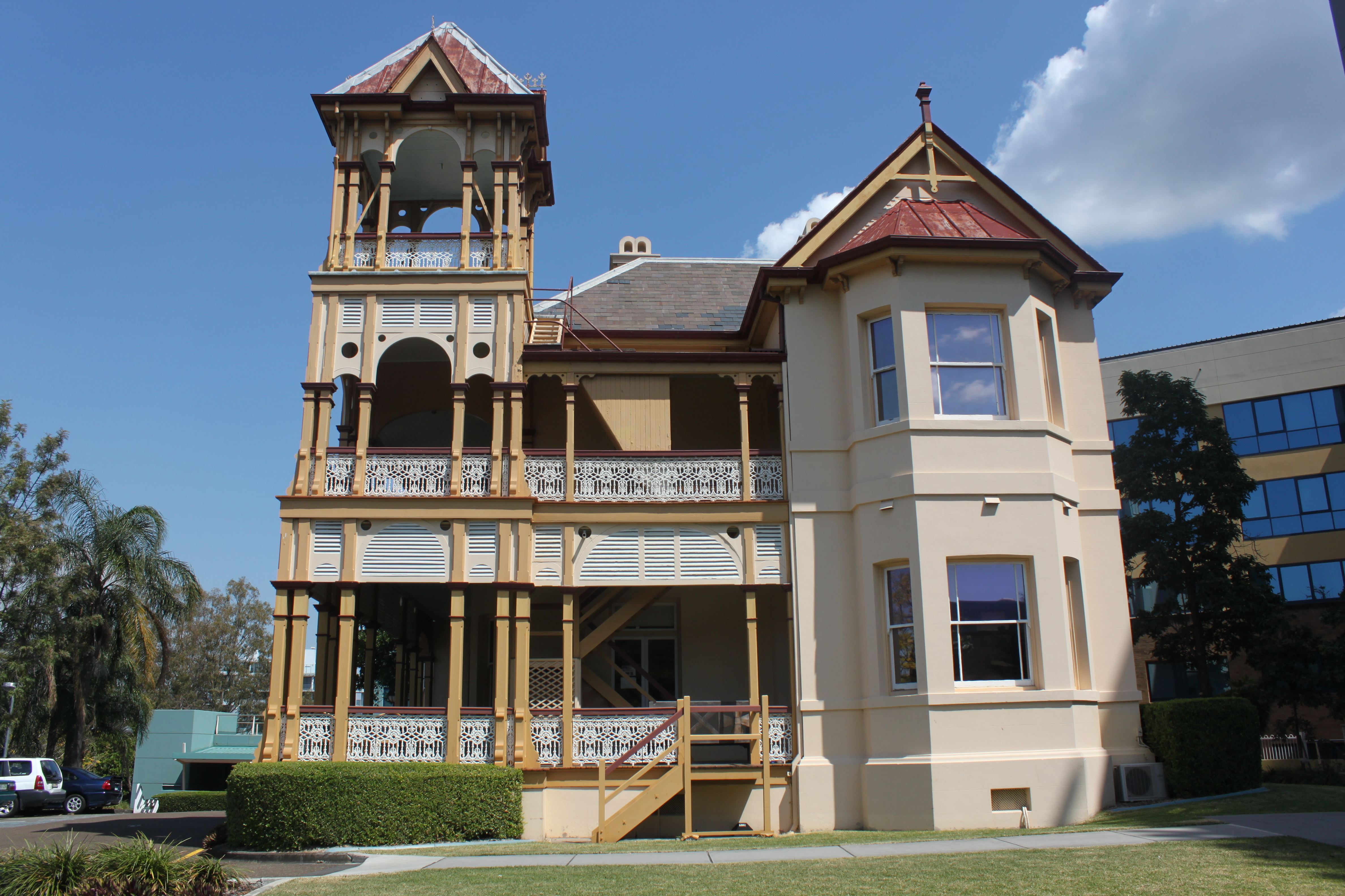 Richard Gailey's work